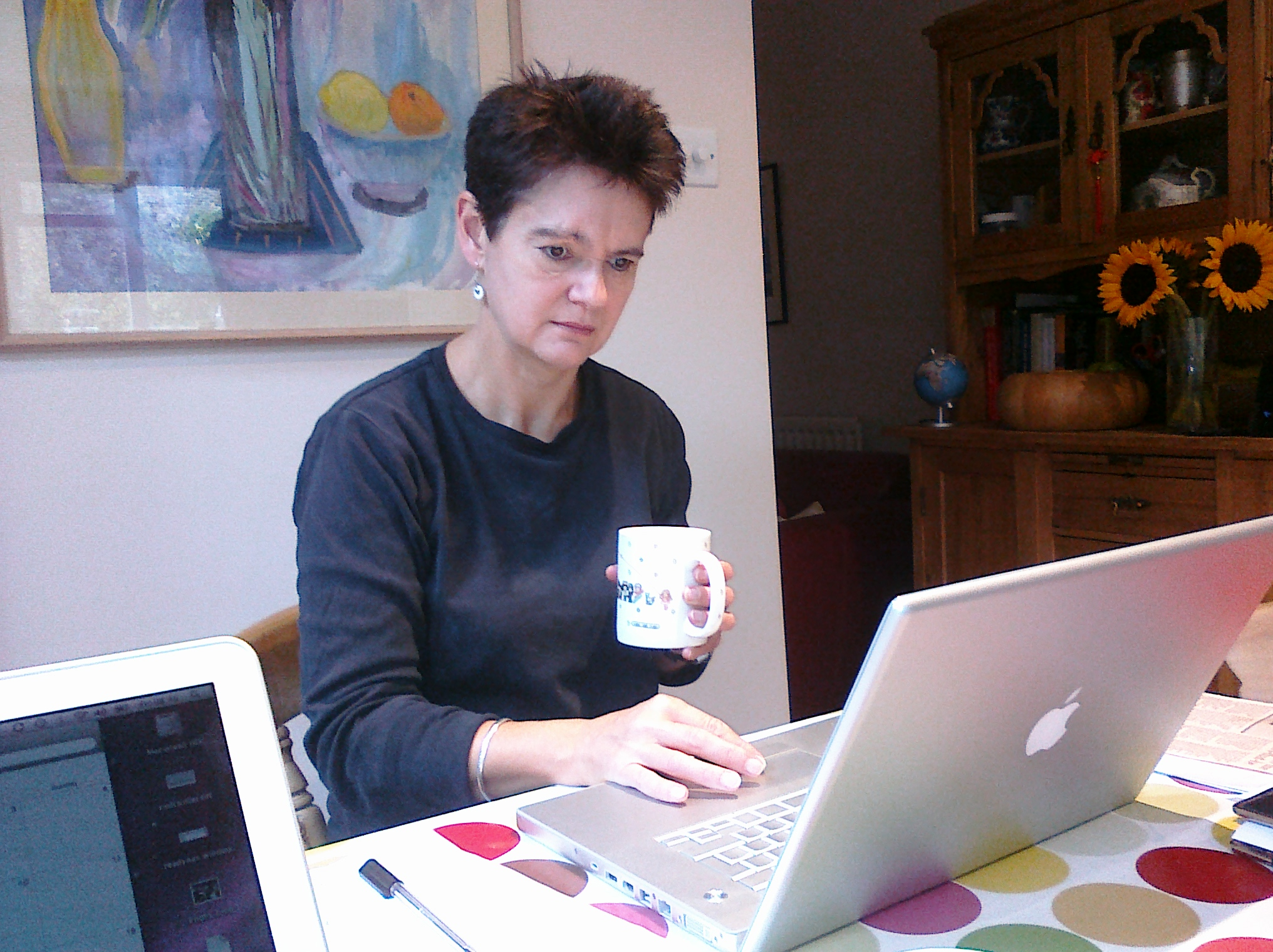 Diane Coyle working with Apple laptop on 9 October 2009.